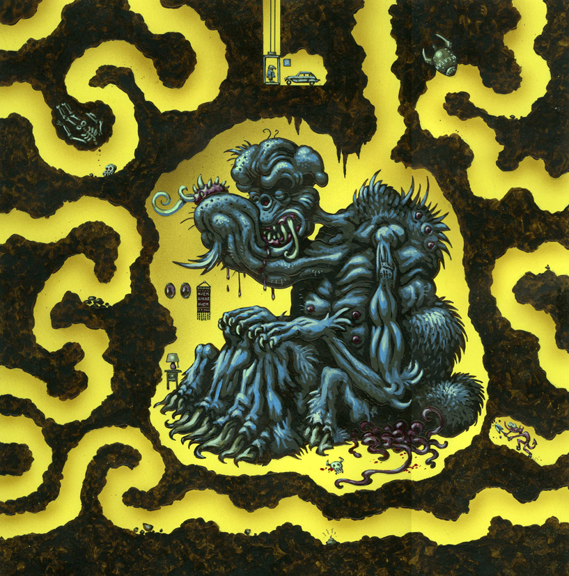 "Bøllebeistet". Illustration from the book Jon Demon by norwegian author and illustrator Reidar Kjelsen